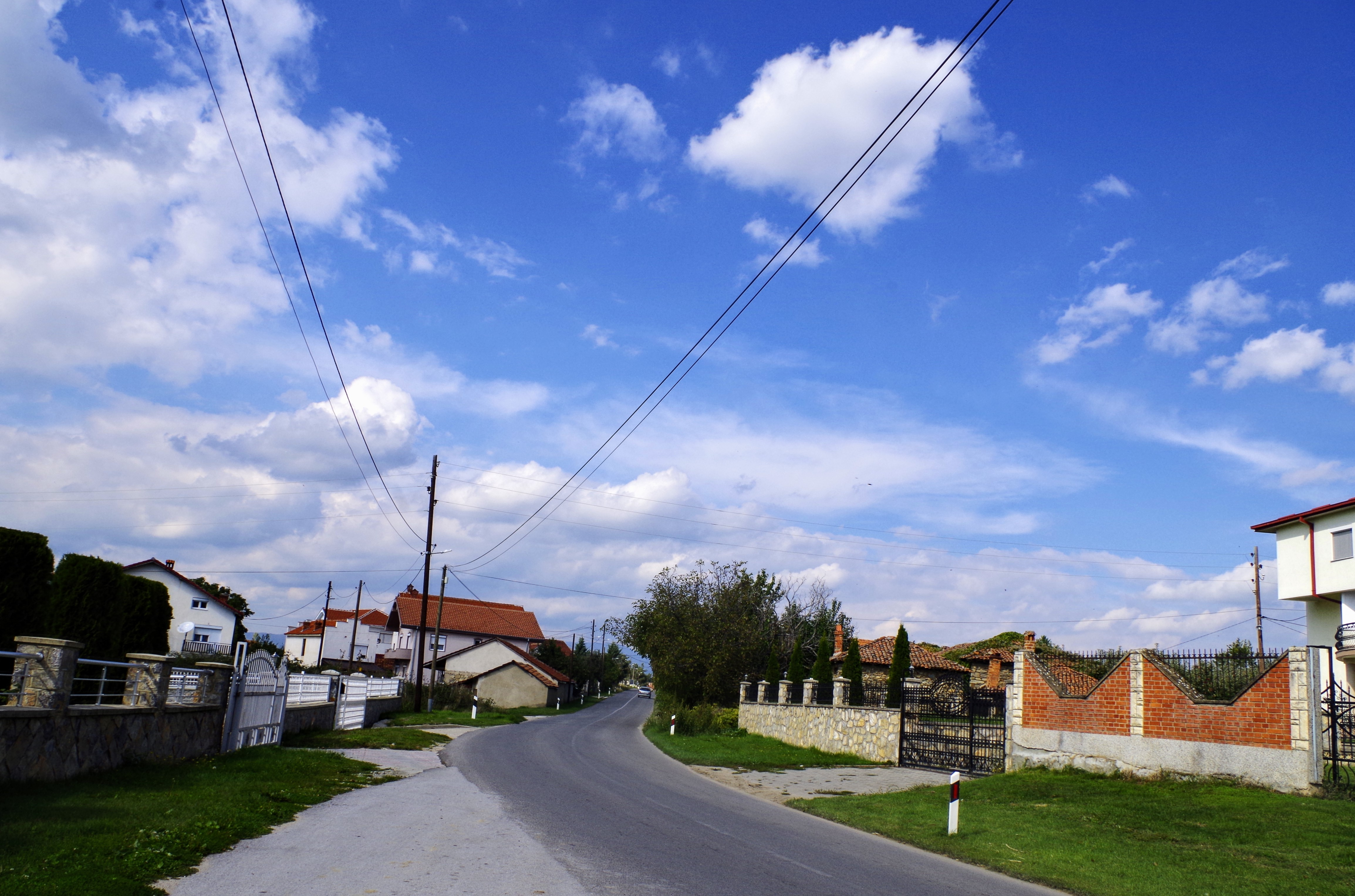 View of the village Grnčari